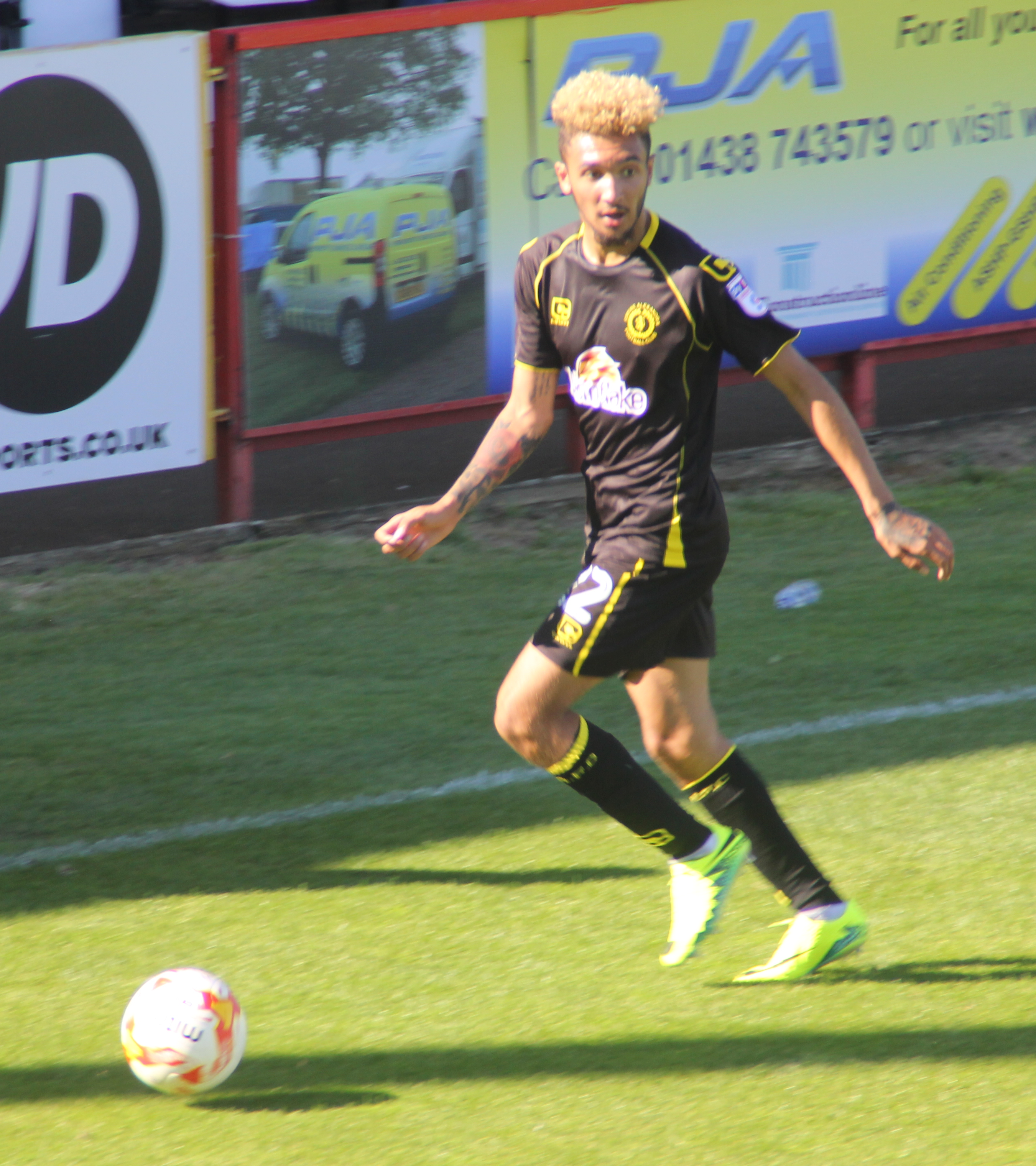 Alex Kiwomya plays on loan for Crewe Alexandra at Stevenage on 6 August 2016.